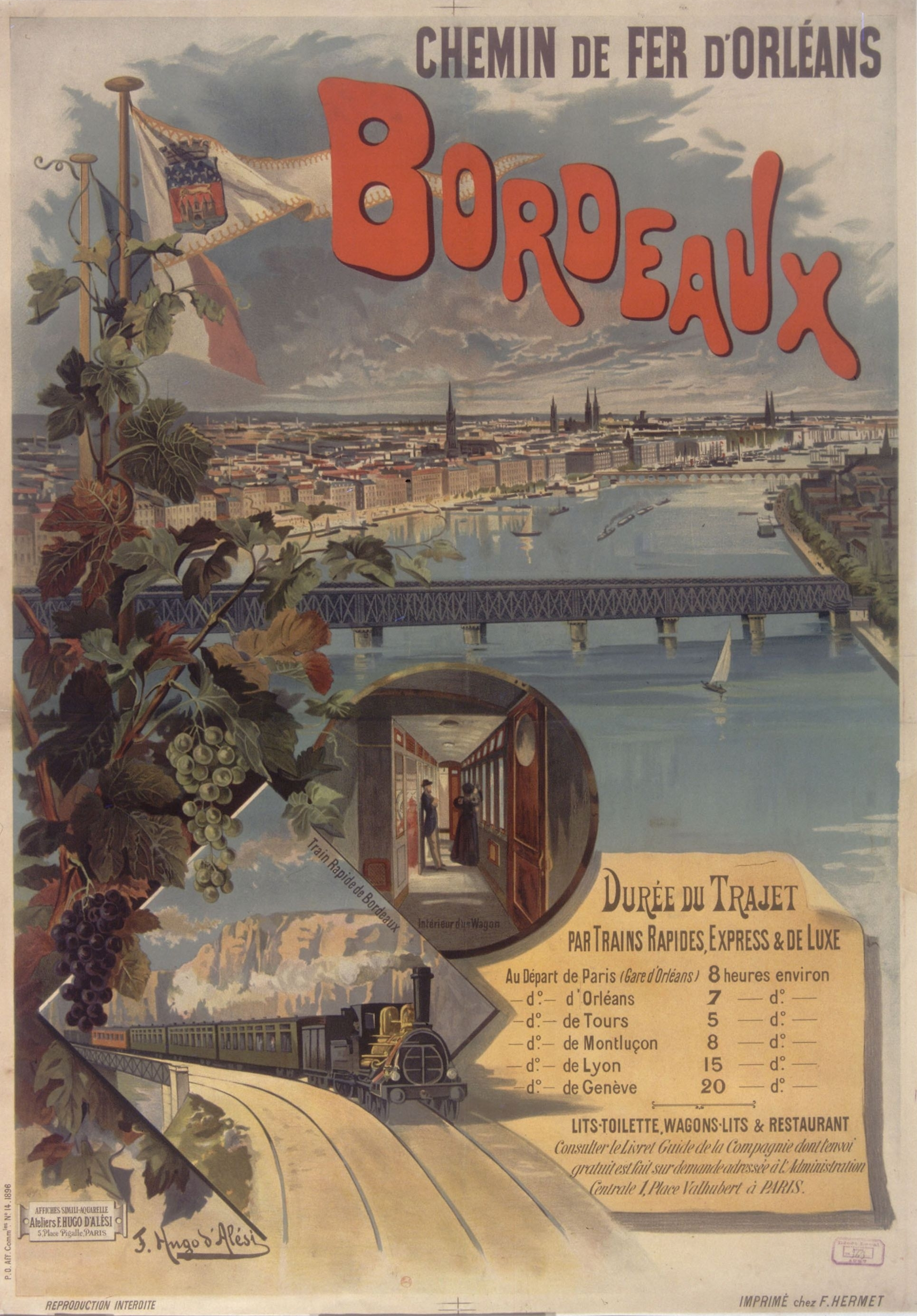 Advertising poster of the former company "Chemin de fer d'Orléans" (=Orleans Railways") who linked Paris to Bordeaux in 8 hours in 1897